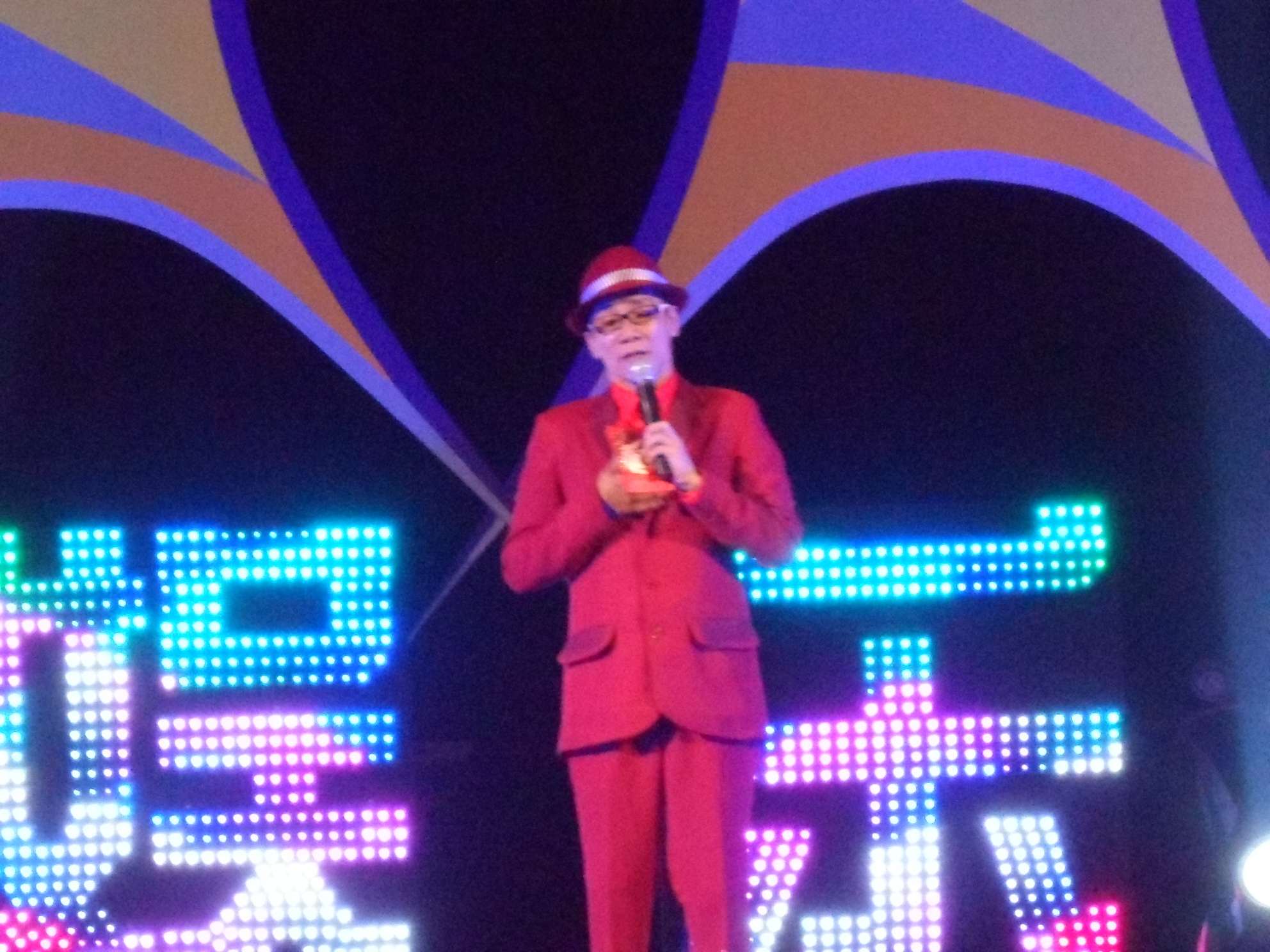 Singer and host Wang Lei at a getai in Singapore.